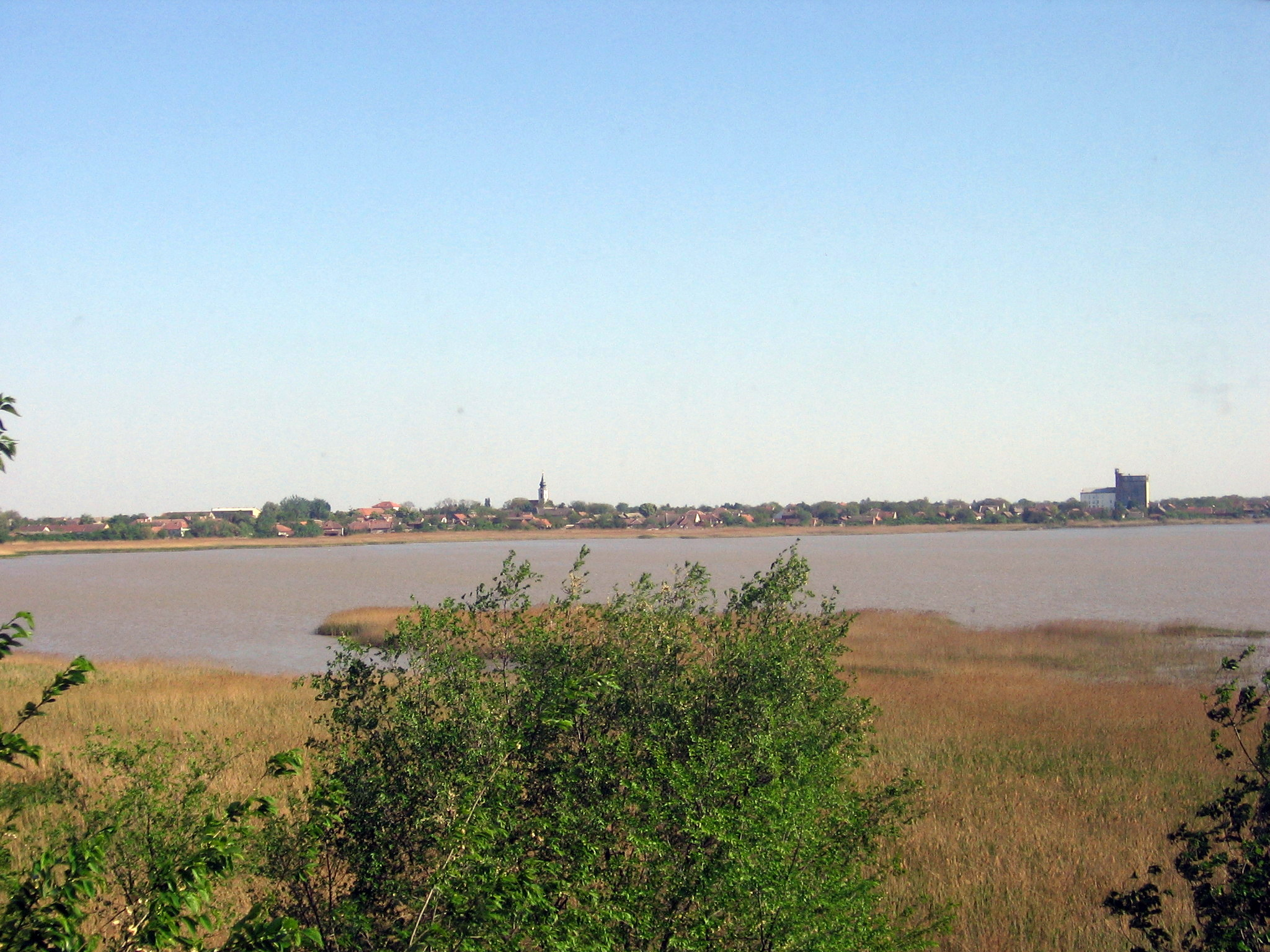 2009-04-26 Melenci village, view from lake Rusanda